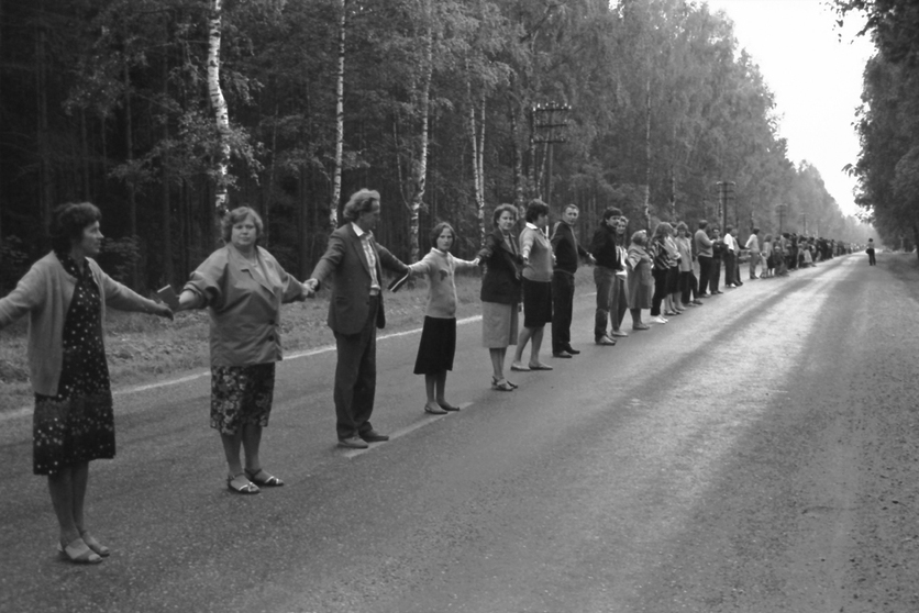 Baltic Way section at the 10th kilometer of Cēsis-Valmiera road